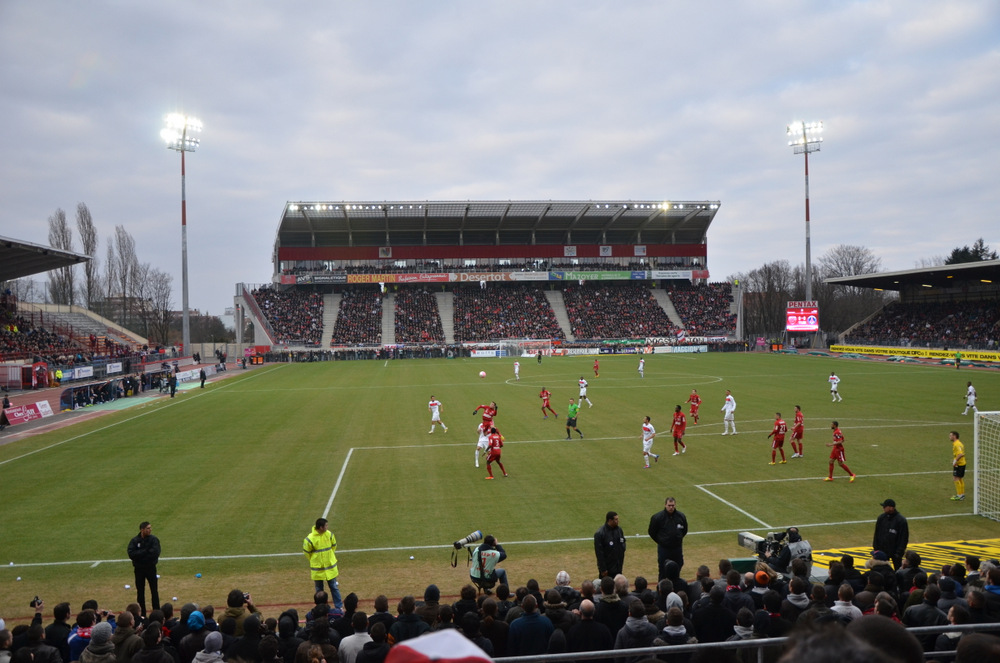 Gaston-Gerard stadium during the match Dijon FCO vs Paris SG, on March 11th, 2012 (Dijon, France).